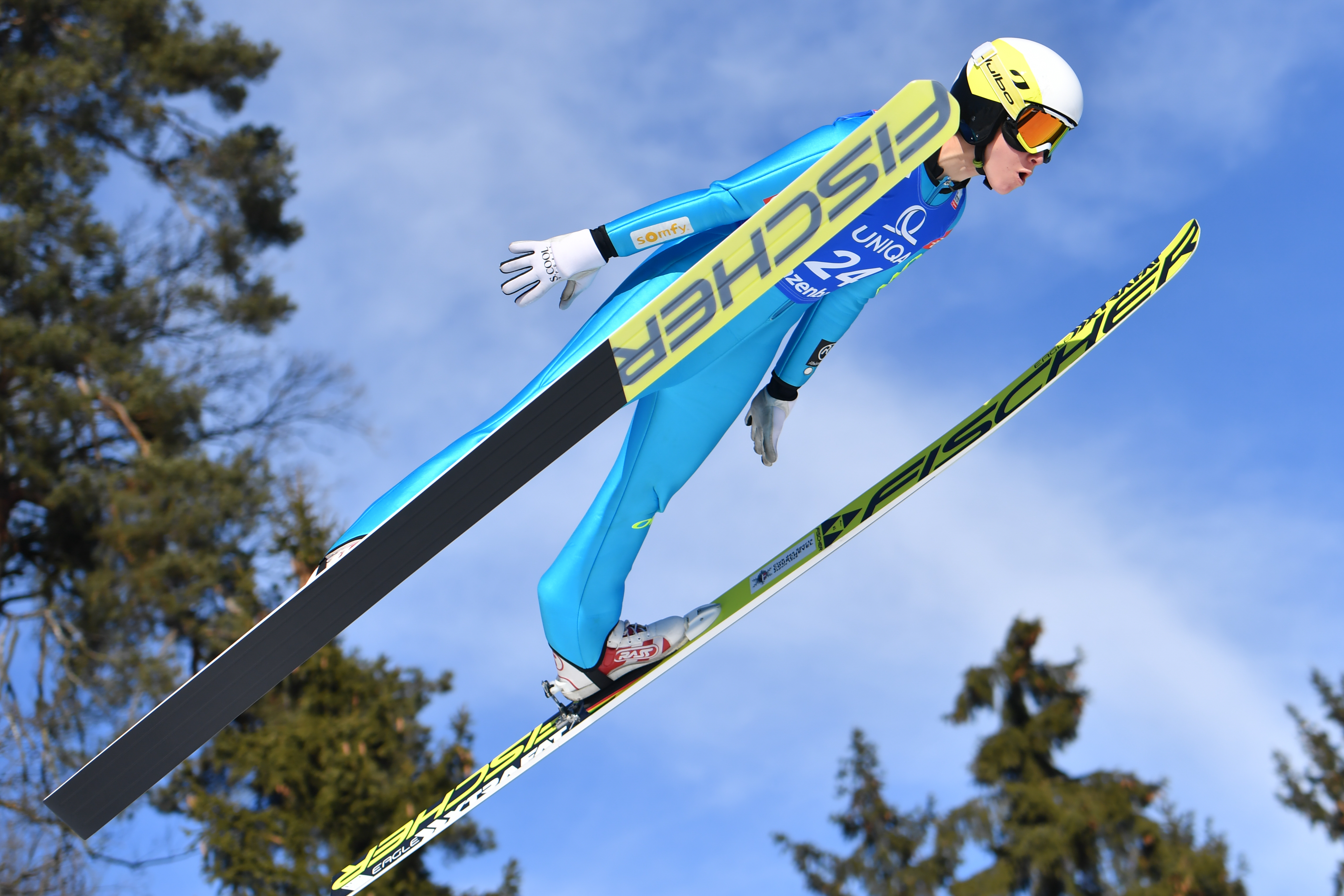 05/02/17, Hinzenbach, Austria, FIS Ski Jumping World Cup Ladies 2017